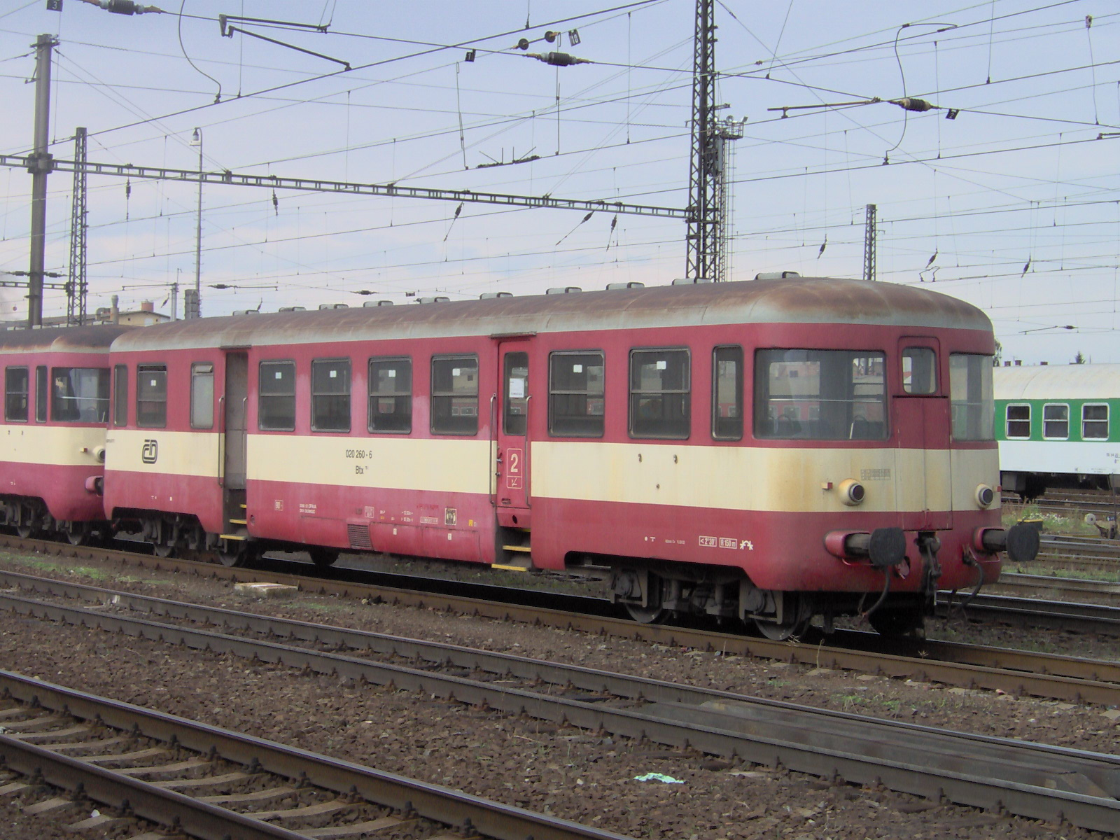 Railway coach 020.260, Olomouc main station, Czech Republic